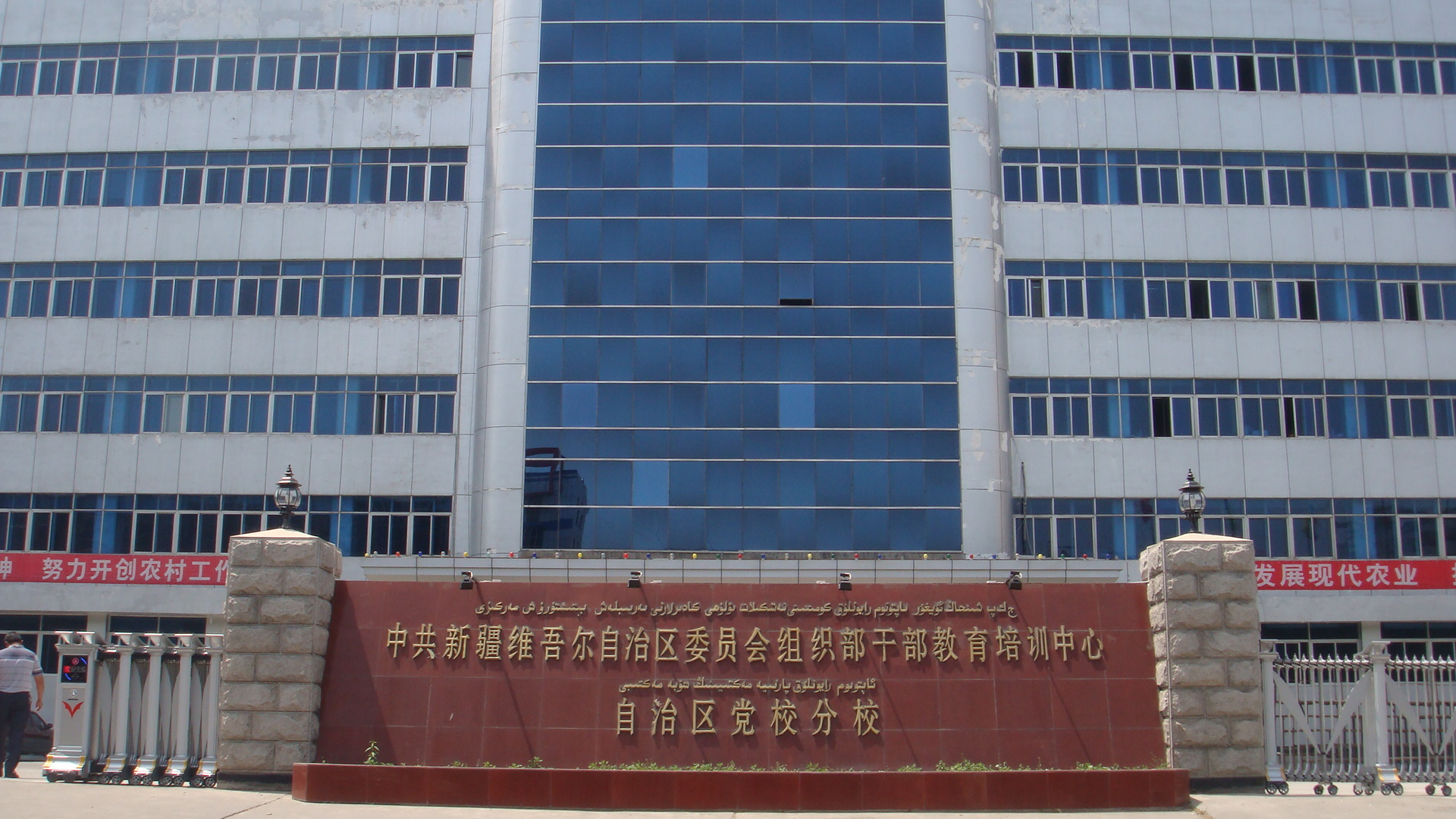 Urumqi, Xinjiang, China